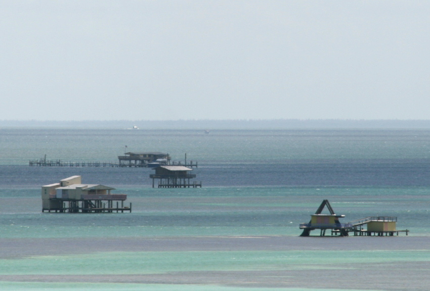 Pictures of houses in Stiltsville, Biscayne National Park, Florida